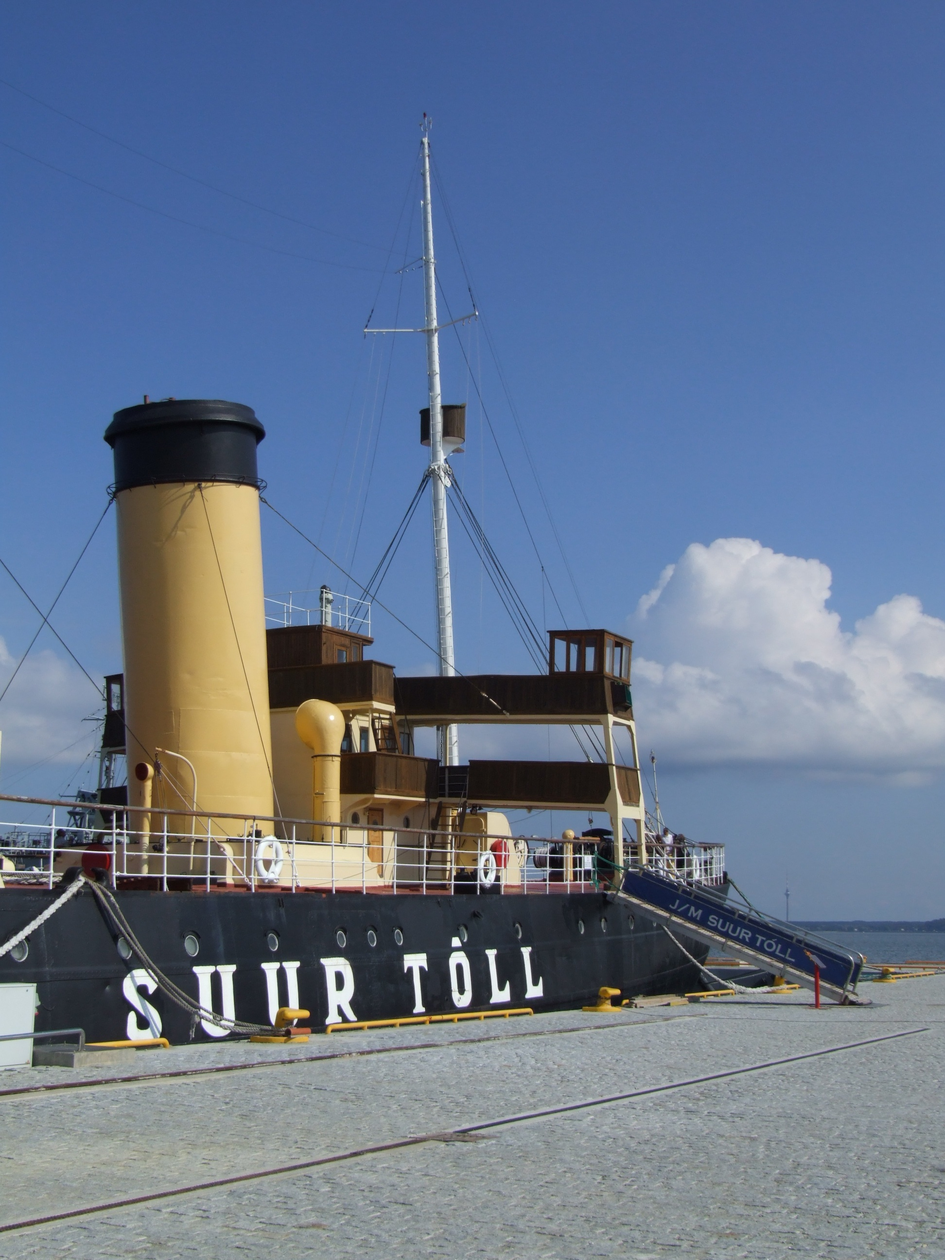 Icebreaker "Suur Tõll", Tallinn